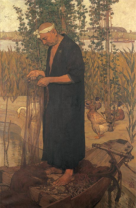 Painting by Kosugi Hoan "Water village"